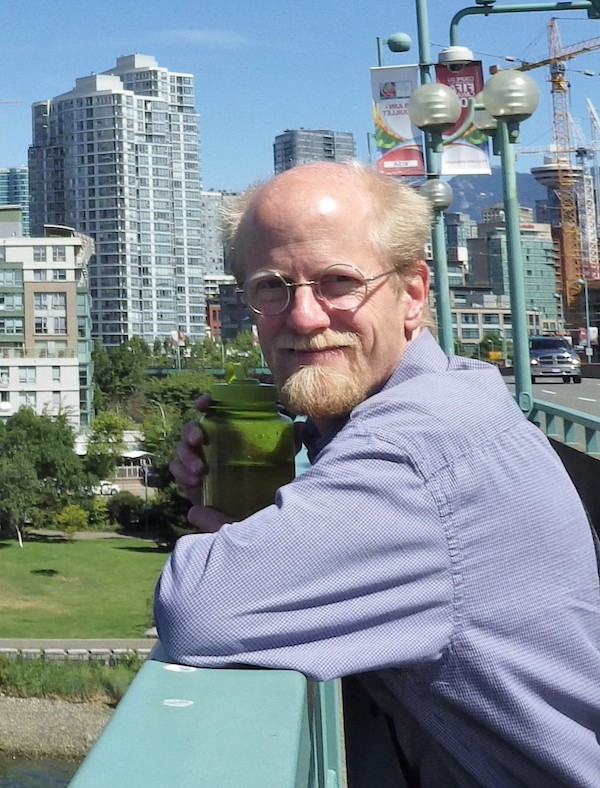 Photo of Paul Adams